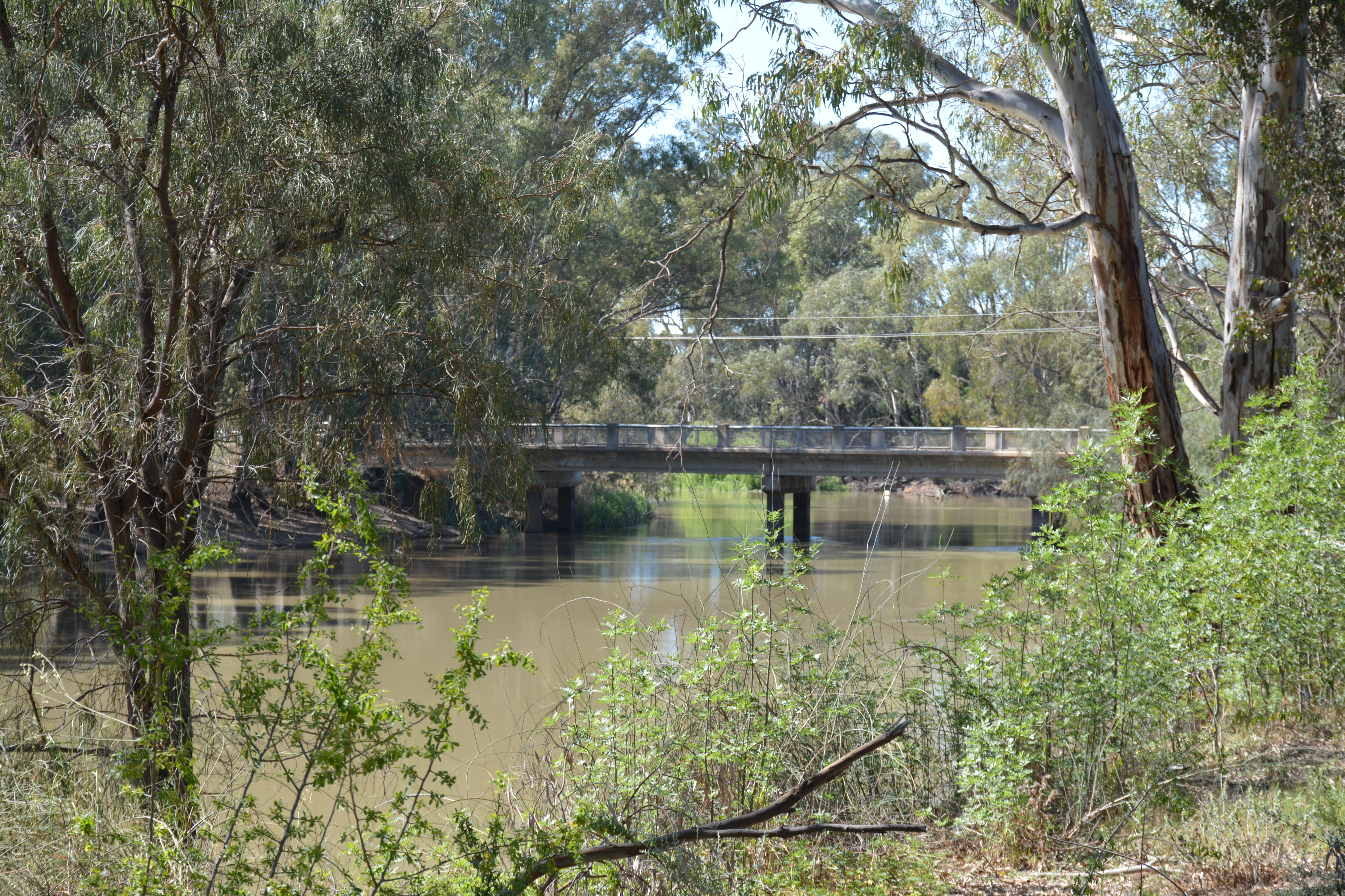 The bridge across the Little Murray River, also known as the Marraboor River, which provides access to Pental Island. Photo taken from the Swan Hill River Walking Track.